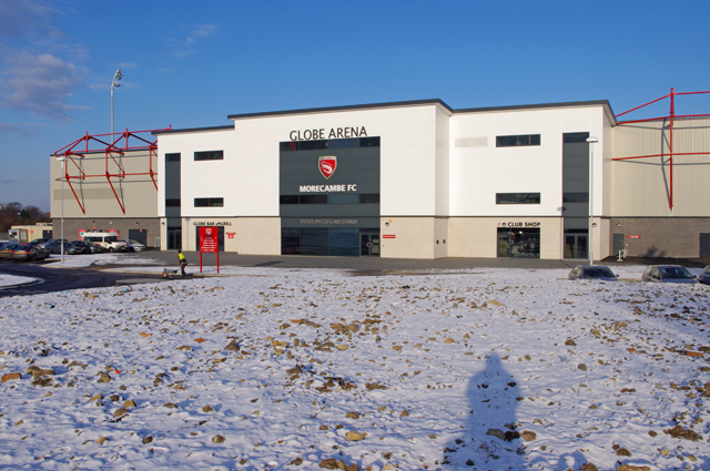 The Globe ArenaThe new stadium for Morecambe FC (The Shrimps), opened for the 2010/11 season. This is the Peter McGuigan Stand, named after the club chairman, on the south side.